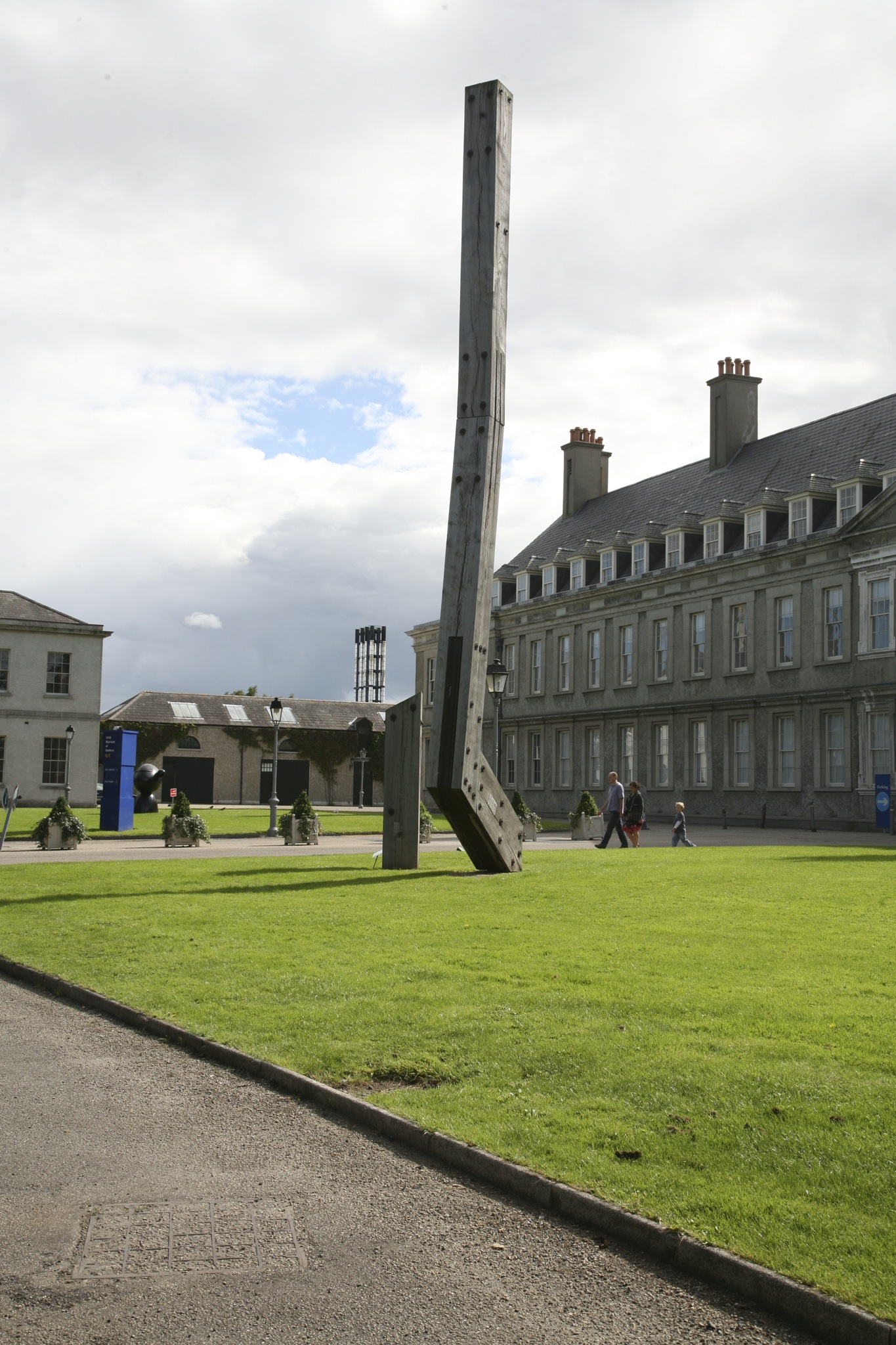 Irish Museum of Modern Art, Dublin; Michael Warren, 'Beneath the Bow', 1991, Irish Oak and Corten Steel, 12m high